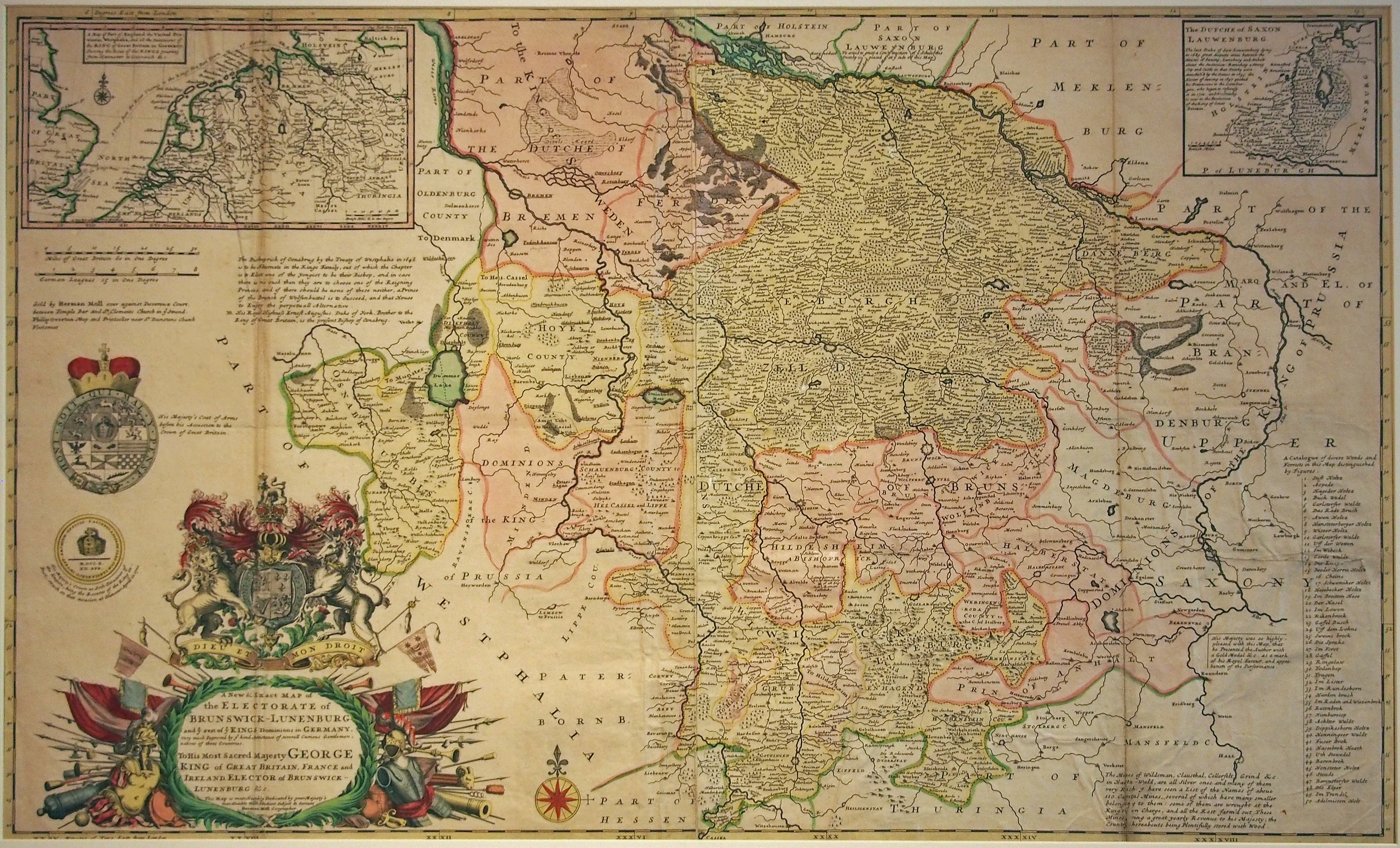 A new exact map of the Elcctoratc of Brunswick-Lüneburg. The map was designed to present the German State of their king, George I, to the British population. The king's route on visits to Germany is shown at the top. In 1722 the Electorate of Brunswick-Lüneburg con-sisted of the principalities of Calenberg, Göttingen, Grubenhagen and Lüneburg, the counties of Diepholz and Hoya and the duchies of Lauenburg, Bremen and Verden.